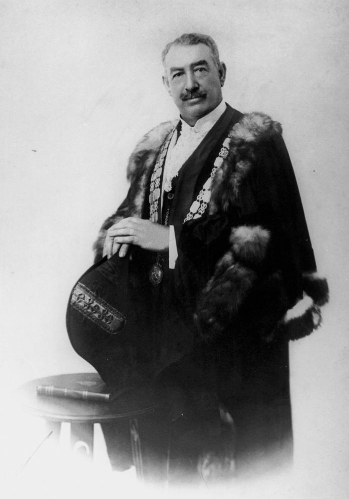 Alexander Mayes. Alderman Alexander Mayes, mayor of Toowoomba 1896, 1903, 1912, and first mayor of the Greater Toowoomba area, 1917. (Description supplied with photograph.).